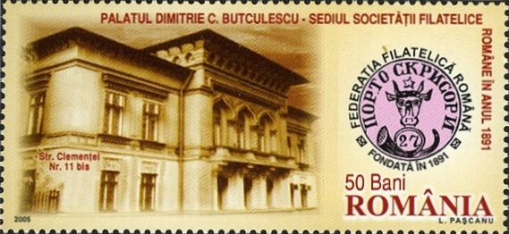 The house where Dimitrie C. Butculescu (1845-1916), the first President of the Romanian Philatelic Society, was born and where he has lived